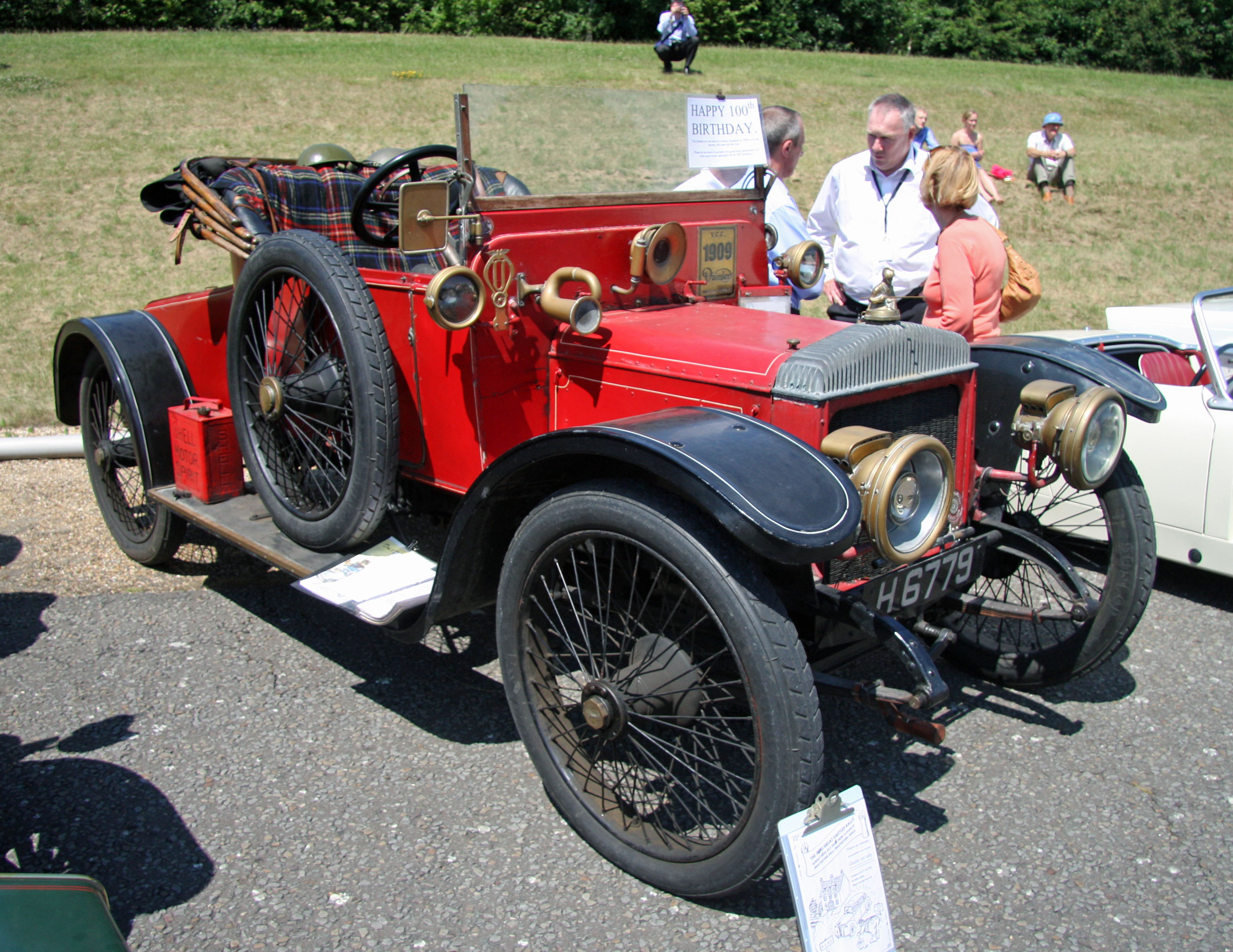 Daimler car made in 1909 at the Dunton Enthusiasts Day July 2009. Daimler TB22 4-cyl 3,568cc 22.8hp. Open 2+2 (2-seater with dickie seat) body by Hewers Motor Bodies of Aldbourne Road Coventry. Chassis 5103, Engine 5614.